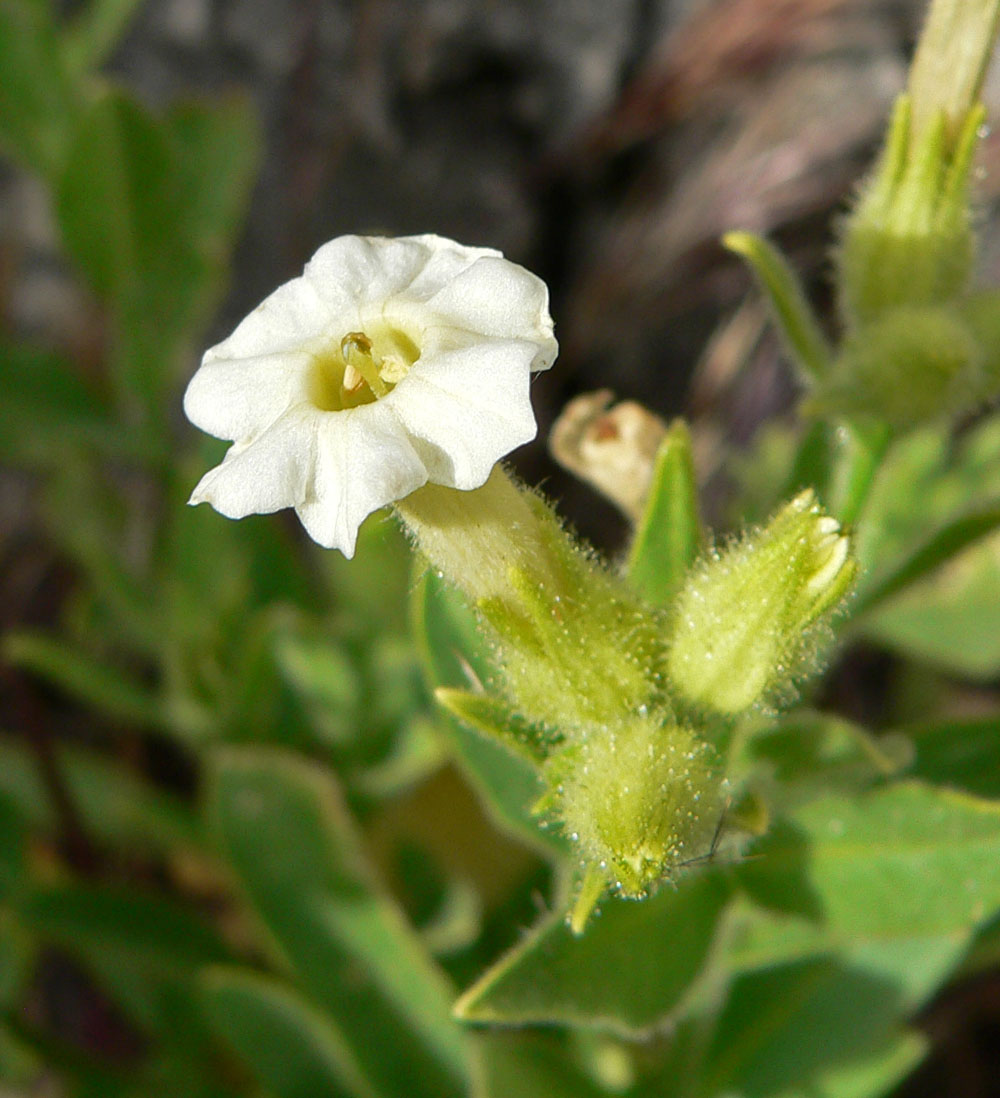 Nicotiana obtusifolia — desert tobacco. In the Mojave Desert, at the west end of Cheyenne Ave, Las Vegas, Nevada (Lone Mountain area).